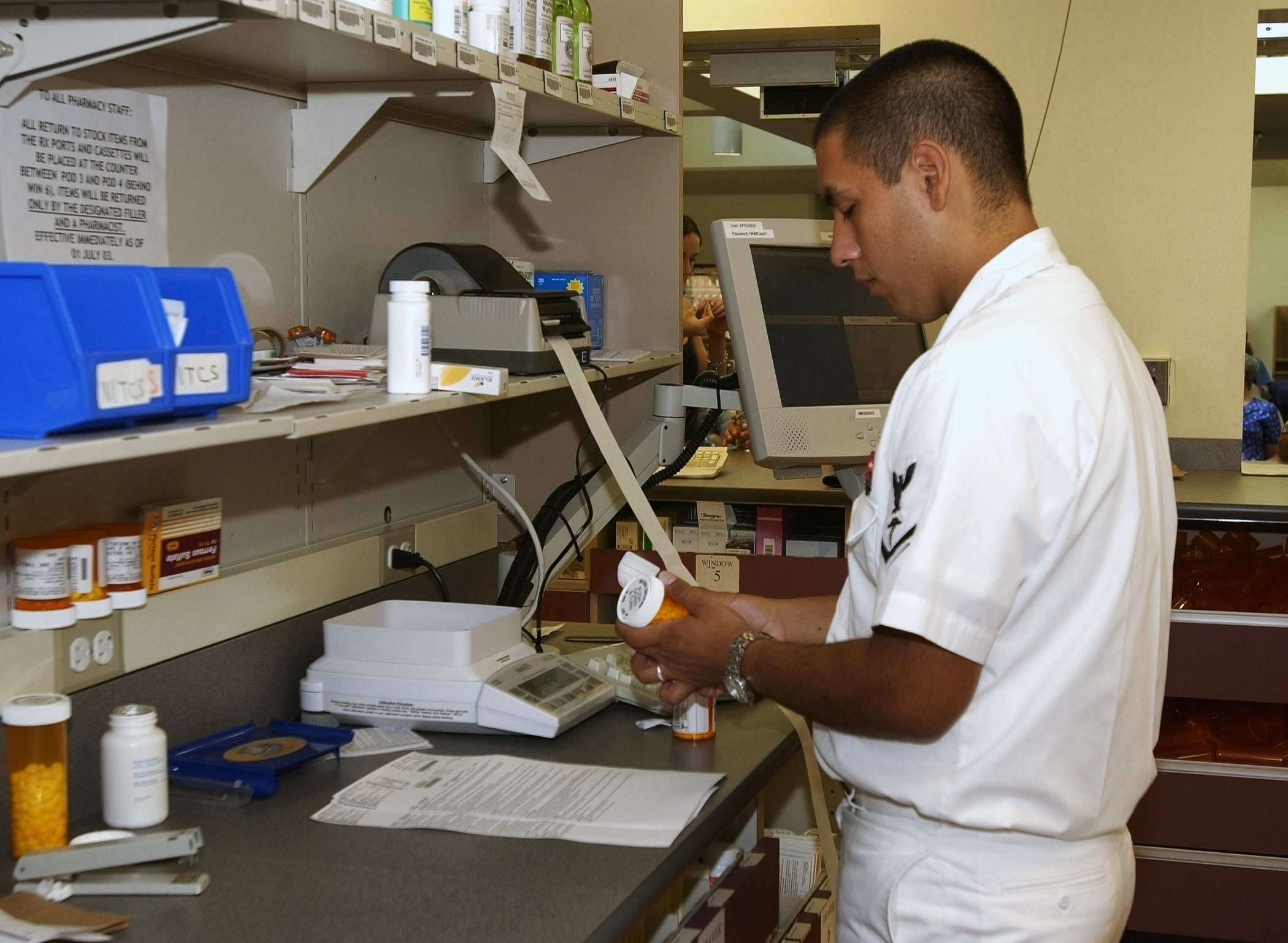 National Naval Medical Center, Bethesda, Md., (Aug. 19, 2003) -- Hospital Corpsman 3rd Class Michael Dominguez, of Denver, CO., labels a prescription in the pharmacy at the National Naval Medical Center in Bethesda, Maryland. U.S. Navy photo by Chief Warrant Officer 4 Seth Rossman. (RELEASED)